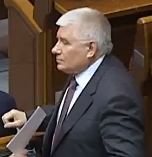 Mykhailo Chechetov, Ukrainian politician, member of the Ukrainian Verkhovna Rada